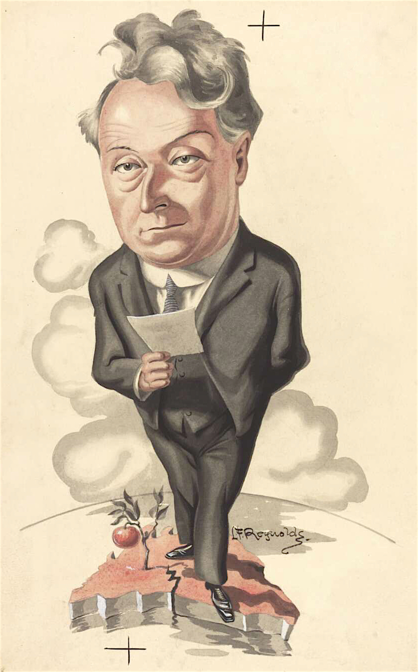 Caricature of Joseph Lyons as Premier of Tasmania. He is depicted astride Tasmania facing north to the rest of Australia; the apple tree is a reference to Tasmania being nicknamed the "Apple Isle".